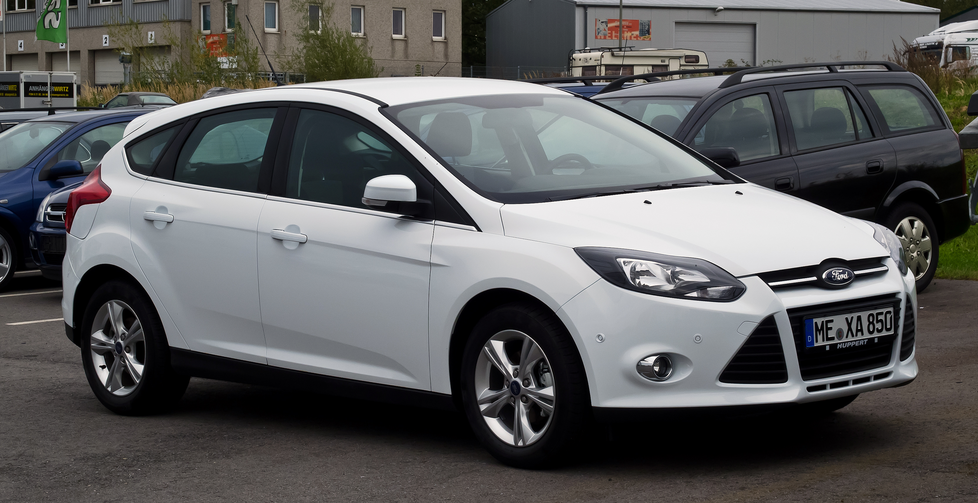 Ford Focus 1.6 Ti-VCT Champions Edition (III)